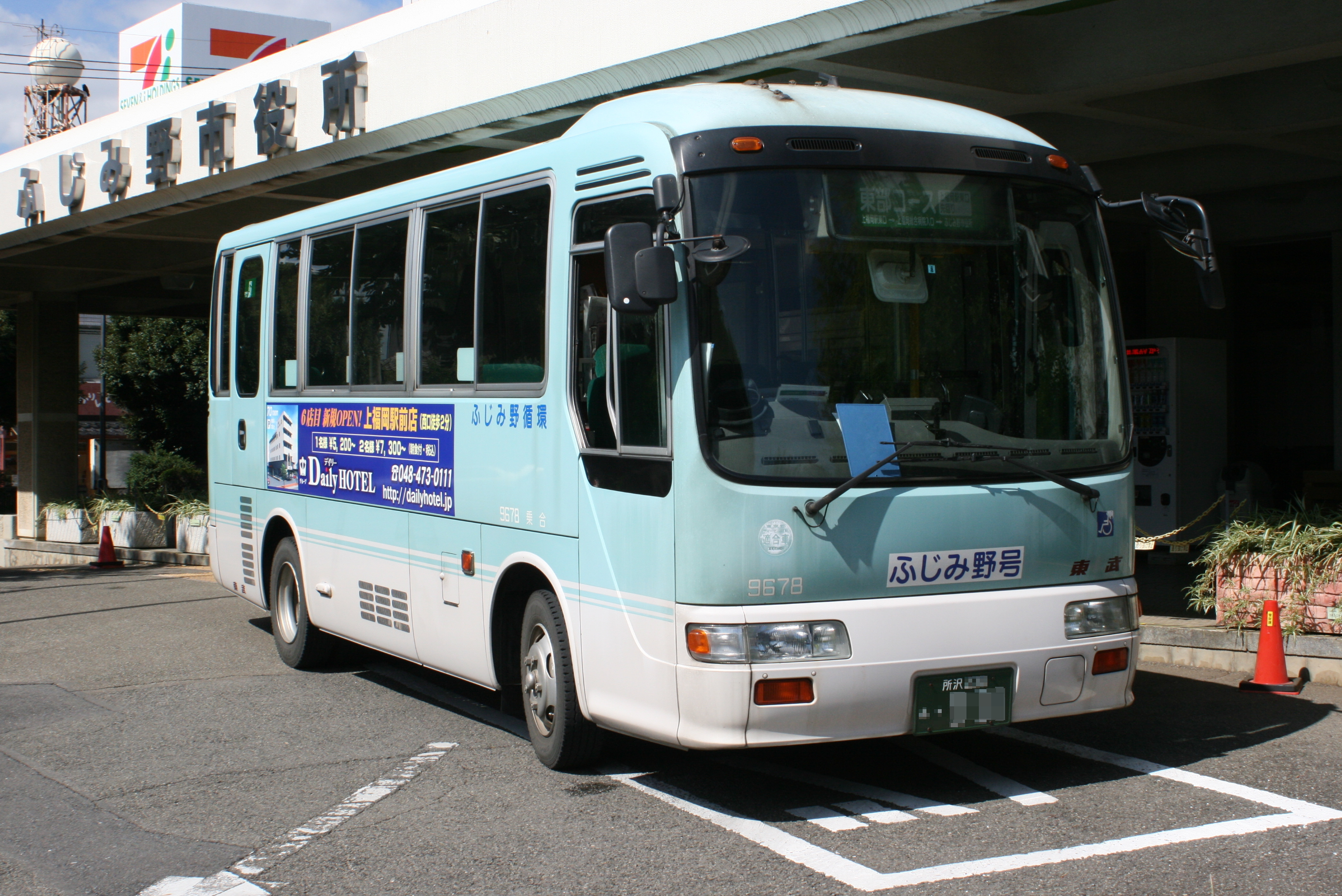 Fujimino city loop bus in Fujimino Saitama, Japan